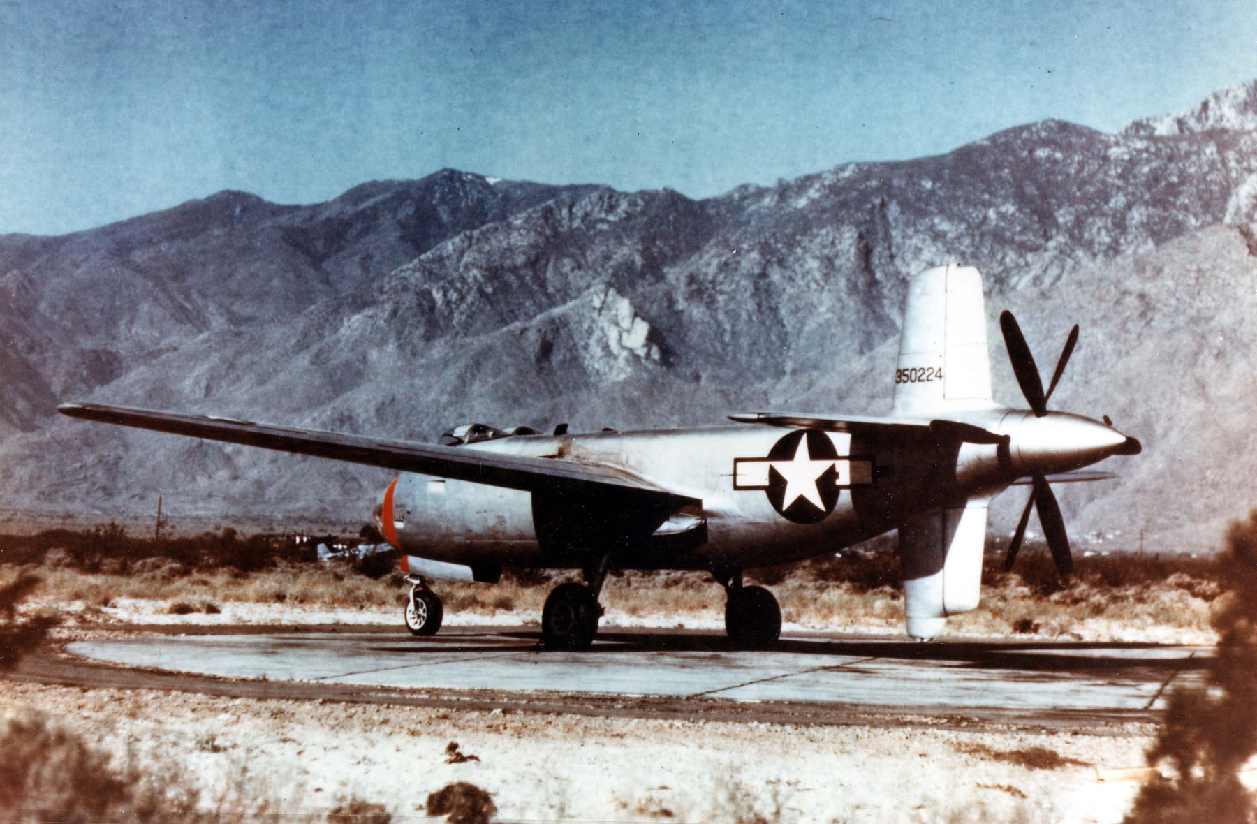 Douglas XB-42A